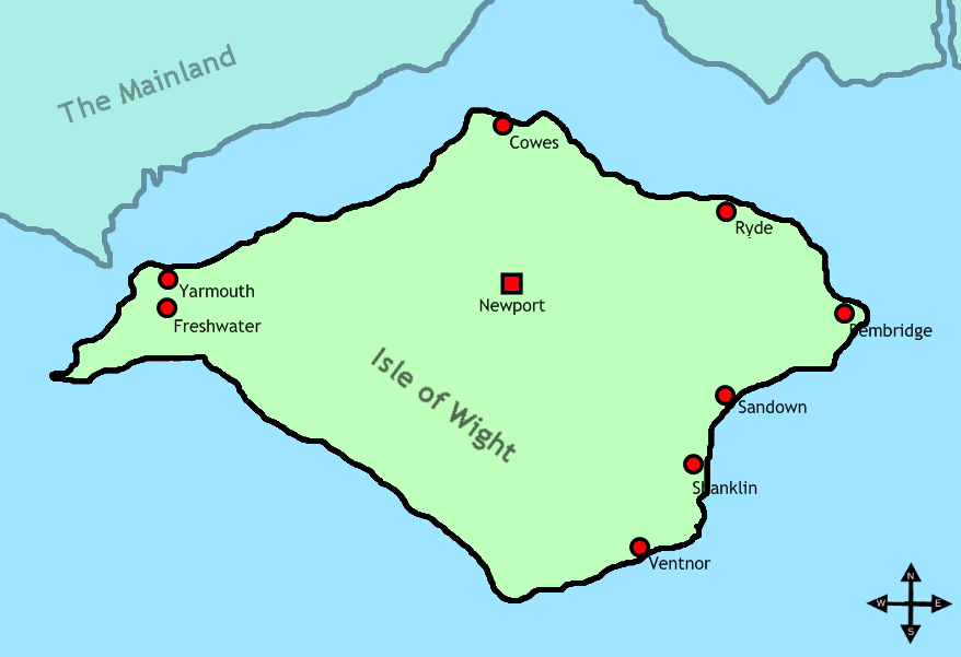 Map of the Isle of Wight. Together with placenames and where it is in relation to the Mainland.